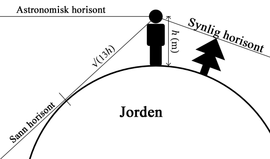 Made by me in Illustrator. Acdx 19:38, 5 September 2006 (UTC) Translated to Norwegian by Helt